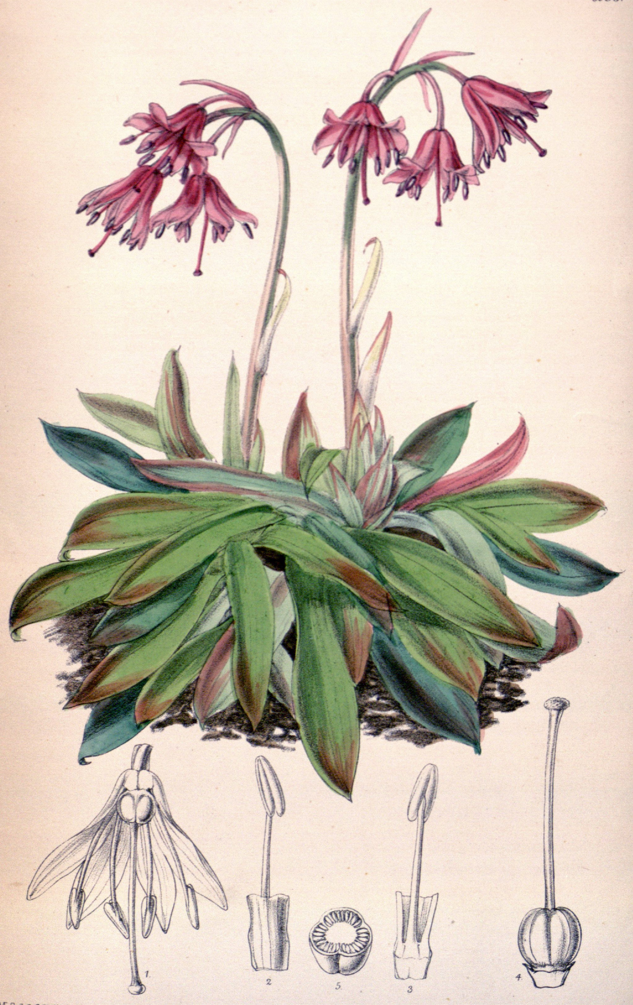 Heloniopsis orientalis var. breviscapa